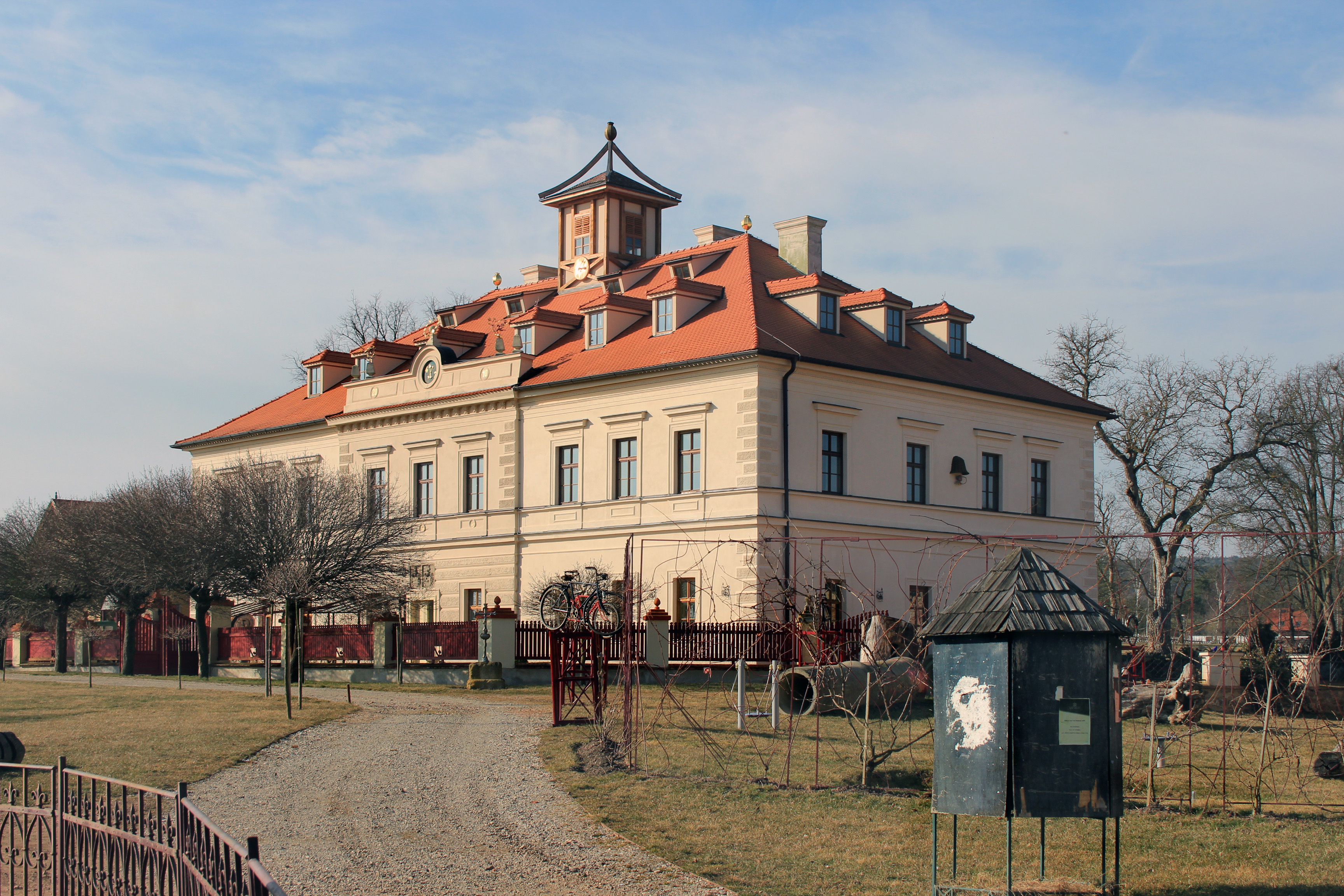 Castle in Rochlov, Czech Republic.